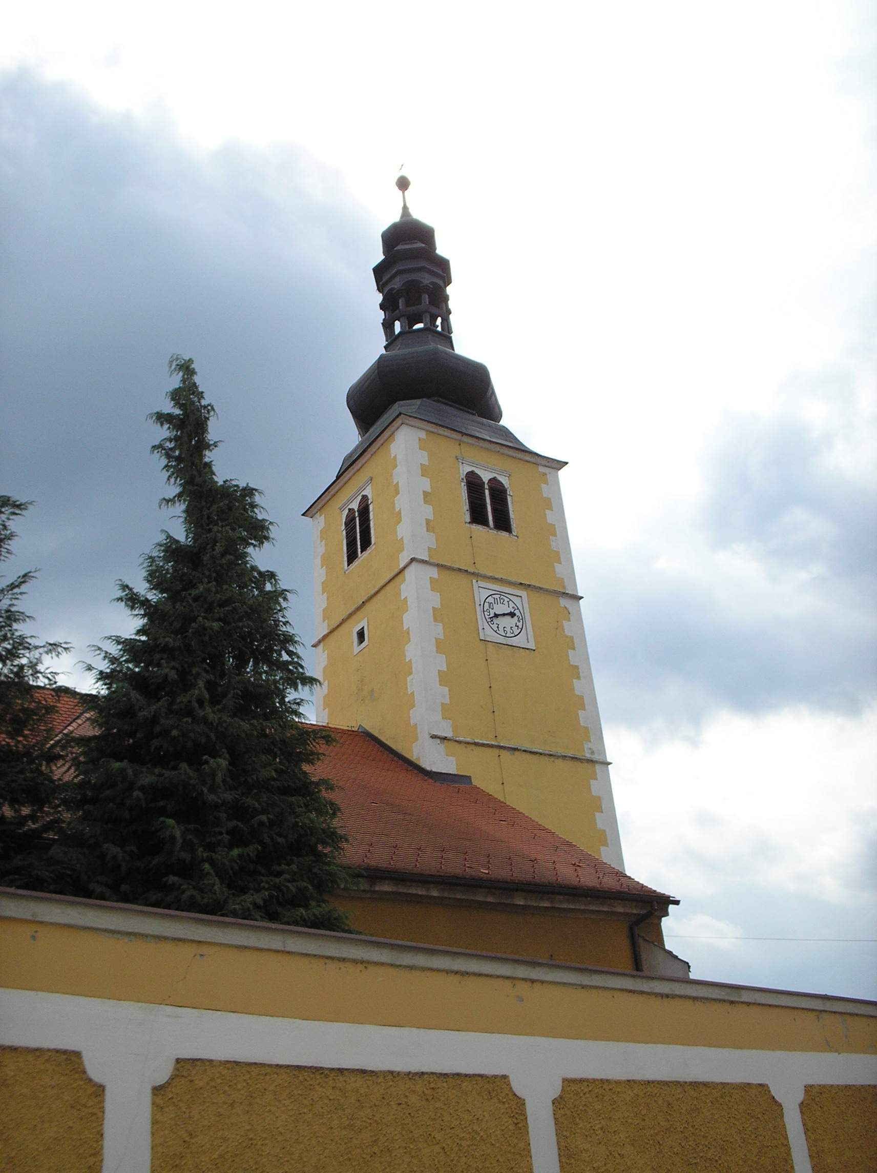 Church of Holly Trinity, City of Ludbreg, Croatia